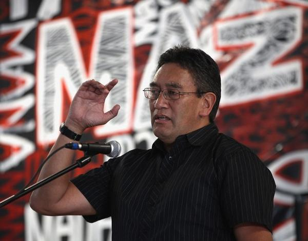 Hone Harawira, Mana Party leader speaks at Mana's founding conference.